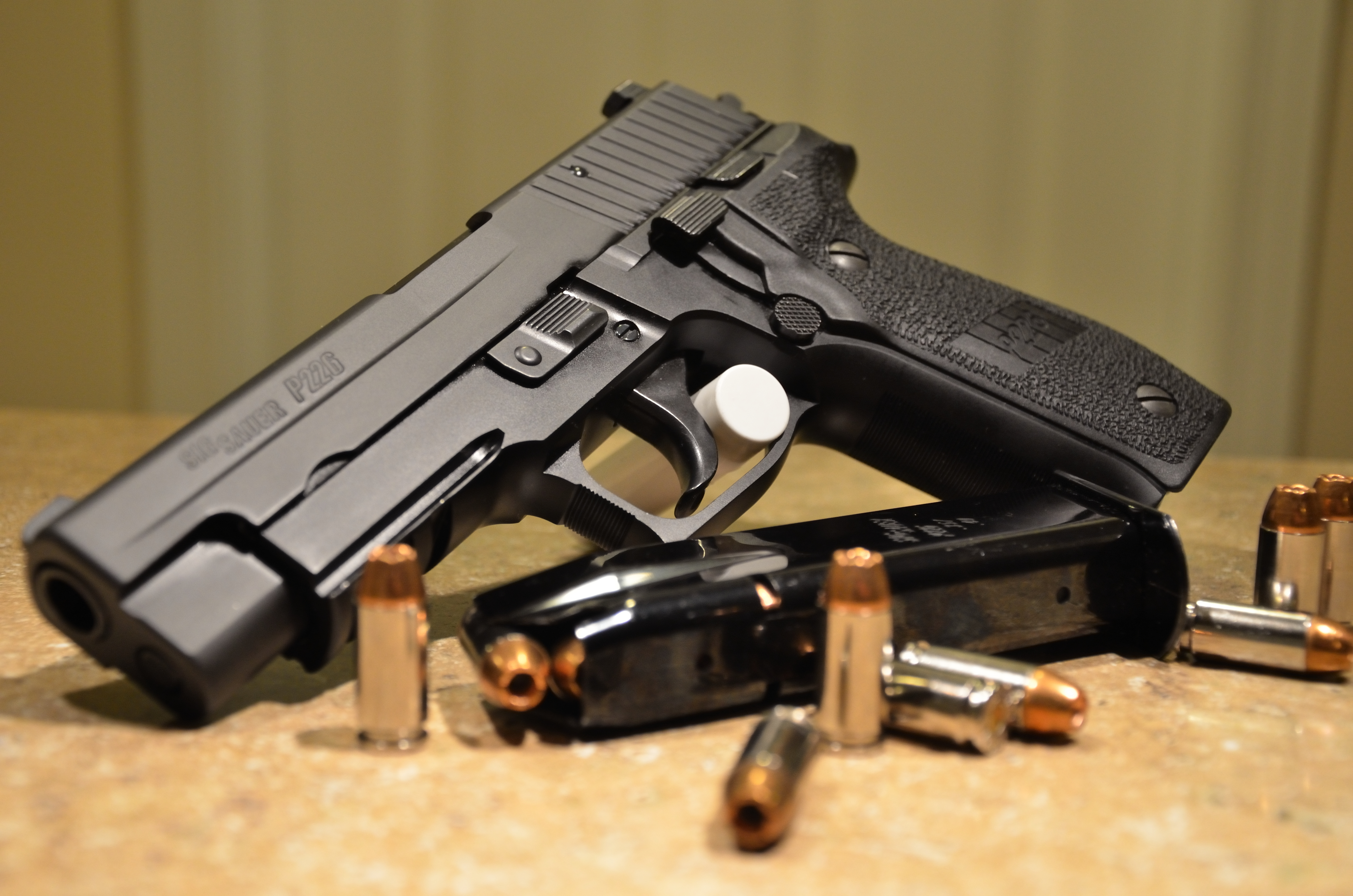 .40 SIG Sauer P226, magazine and Winchester Ranger 165 grain centerfire cartridges